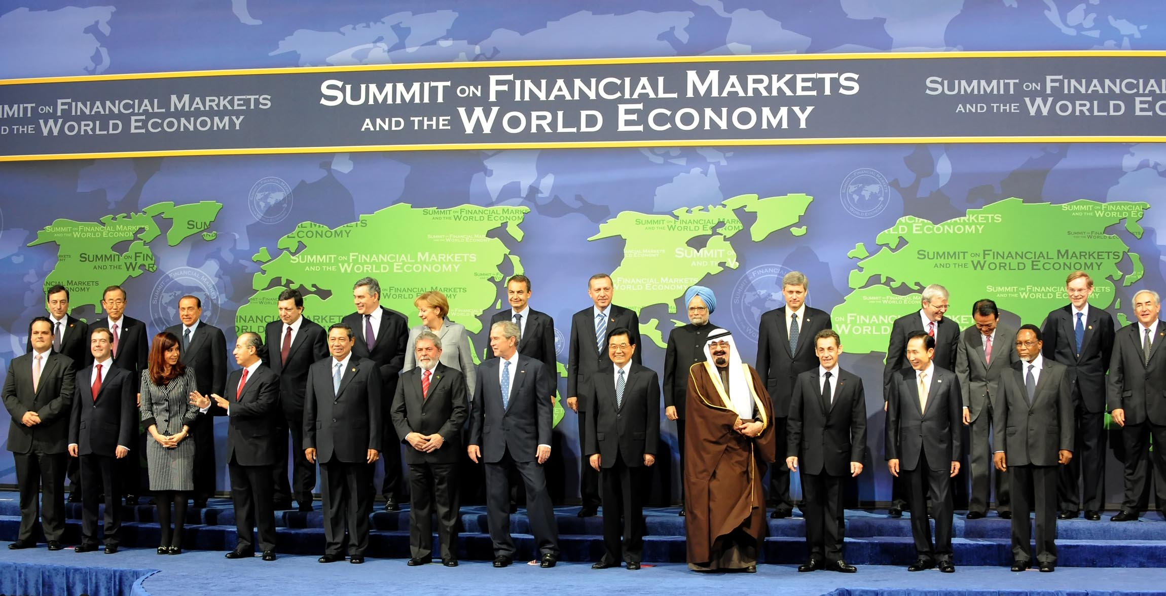 G20 Leaders Summit on Financial Markets and the World Economy in Washington, D.C. on 15 November 2008.